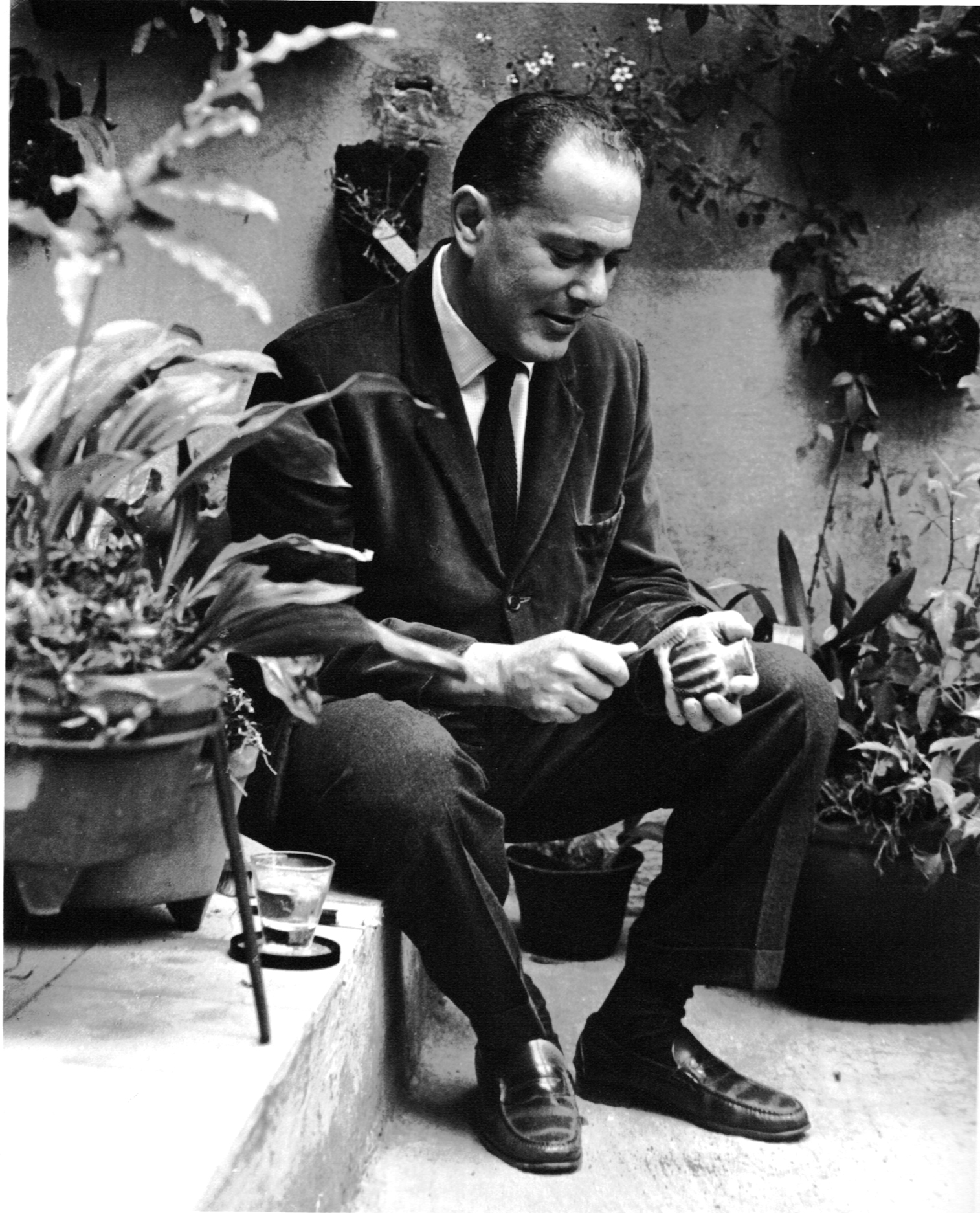 Last photo of George Pepper, taken in Cuernavaca by Cleo Trumbo. Courtesy of Margot Pepper